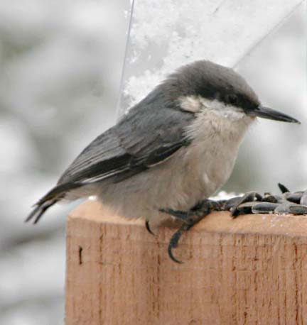 Pygmy Nuthatch (Sitta pygmaea) at a feeder near Pecos, New Mexico.